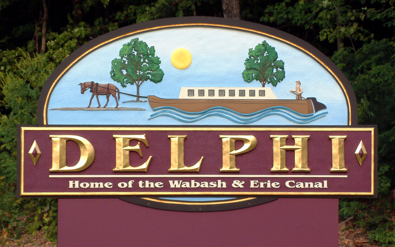 A sign welcomes visitors to the town of Delphi in Carroll County, Indiana. It depicts a horse-drawn canal boat on the Wabash and Erie Canal which operated in Delphi in the mid-19th century. Photo taken at the intersection of Indiana State Road 25 and East Main Street on the east side of Delphi.